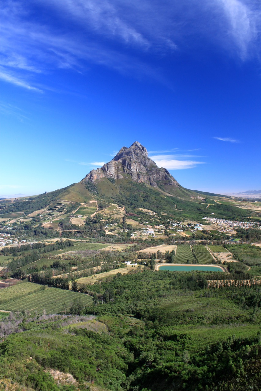 A view of Simonsberg Mountain taken from Drakenstein Mountain, Kyelmore. Taken during a mountaineering trip in February 2010.